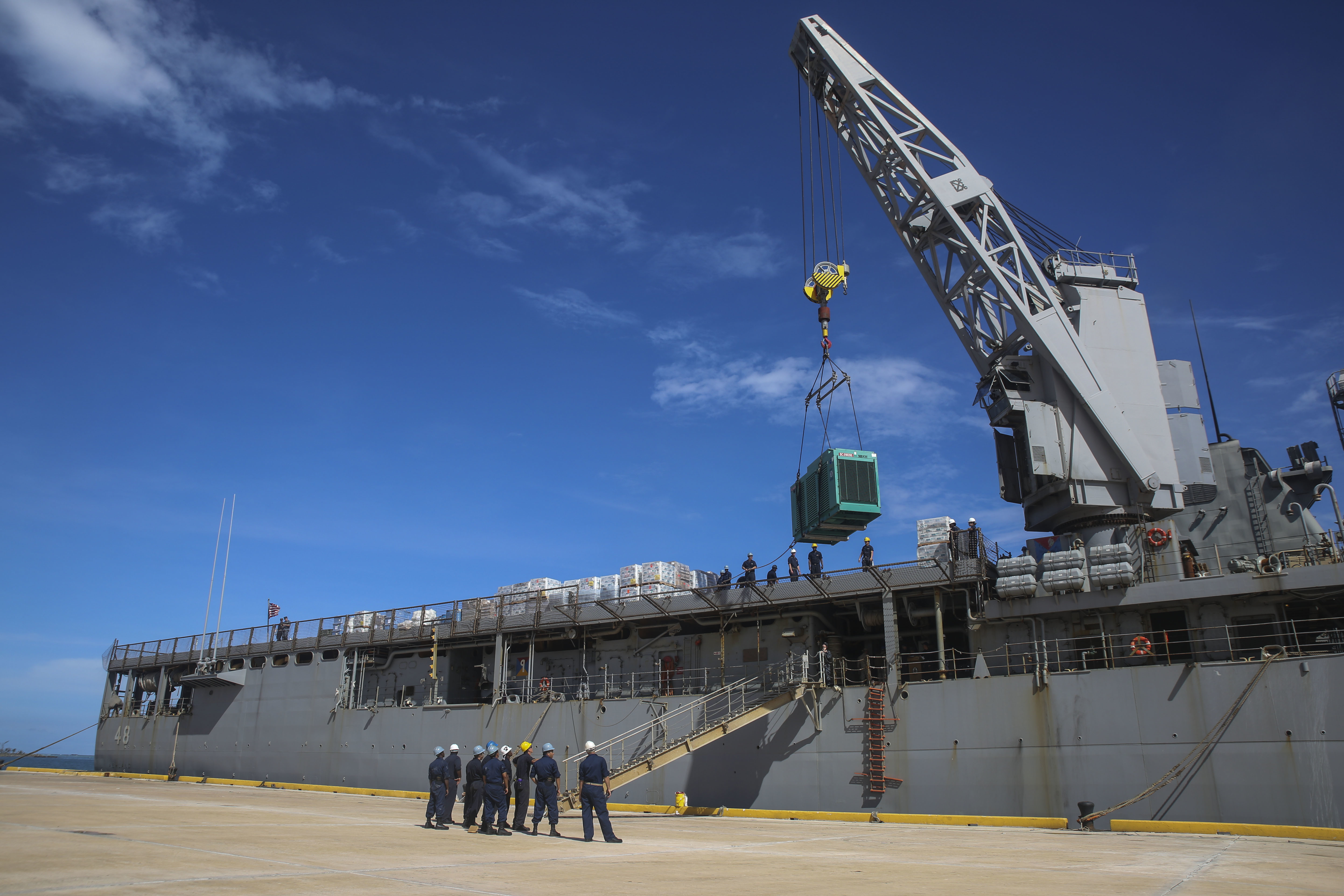 U.S. Marines and sailors with the 31st Marine Expeditionary Unit and the USS Ashland (LSD 48) offload relief supplies from the ship for typhoon recovery efforts in Saipan, Aug. 8, 2015. The MEU and the ships of the Bonhomme Richard Amphibious Ready Group will assist the Federal Emergency Management Agency in delivering the supplies to the victims of Typhoon Soudelor in Saipan. The island, part of the Commonwealth of the Northern Mariana Islands, was struck by the typhoon Aug. 2-3. (U.S. Marine Corps photo by Cpl. Ryan C. Mains/Released) Unit: 31st Marine Expeditionary Unit